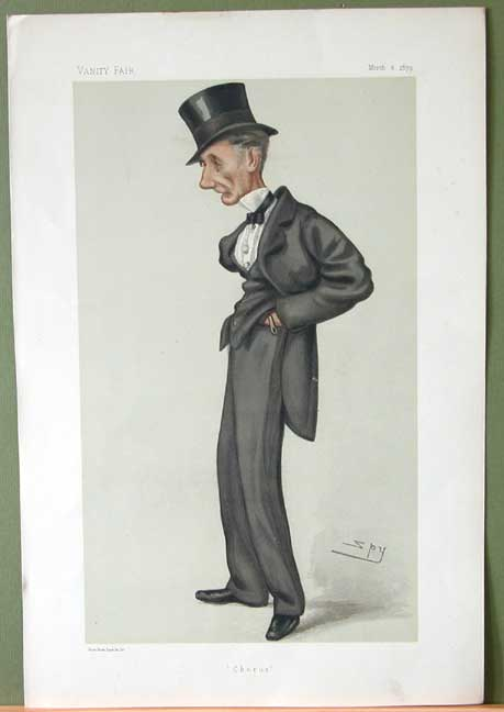 Statesmen No.296: Caricature of Adm Sir W Edmonstone Bt CB MP. Caption reads: "Chorus"